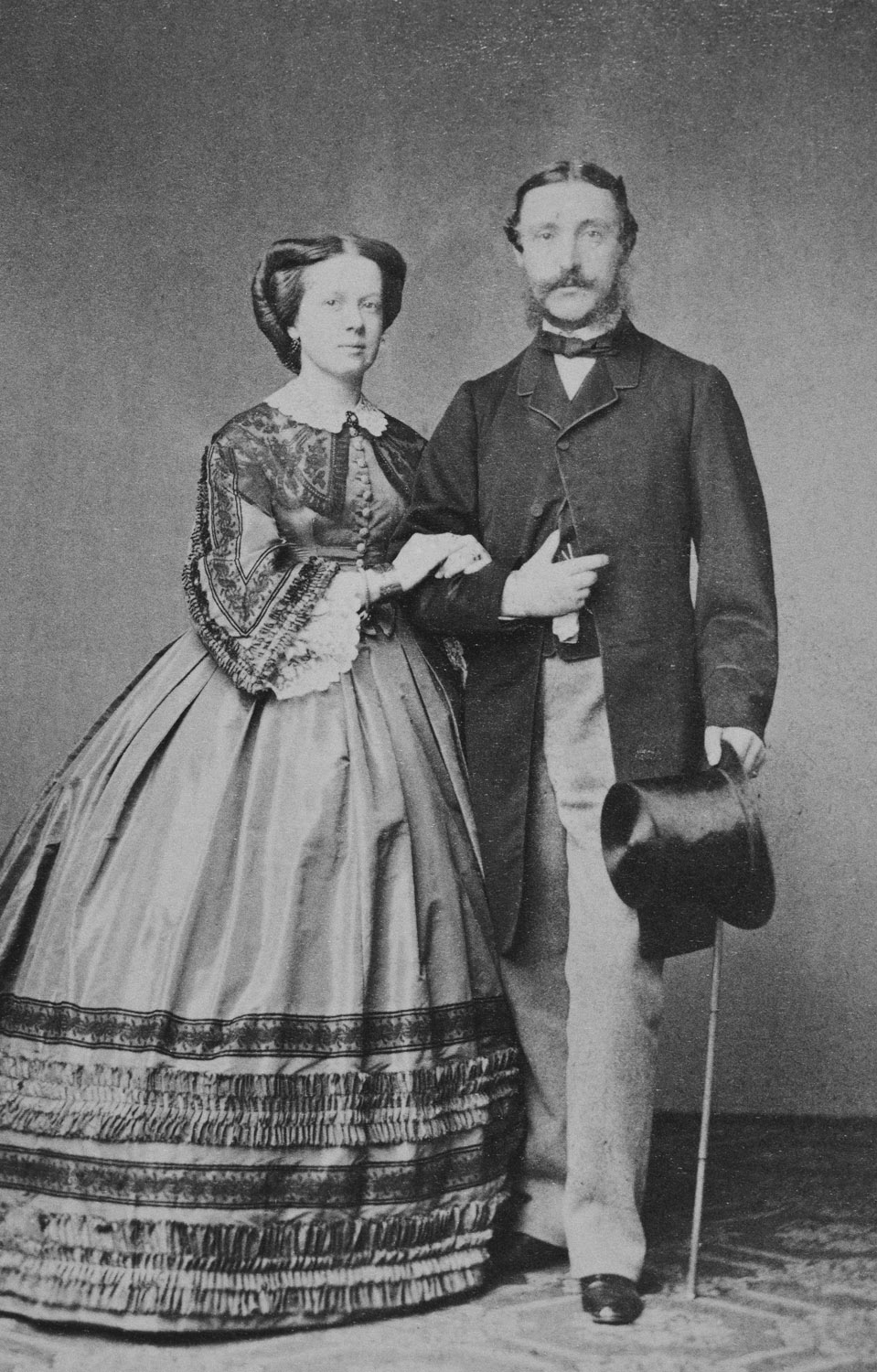 Princess Leopoldine and Prince Hermann (right) of Hohenlohe-Langenburg